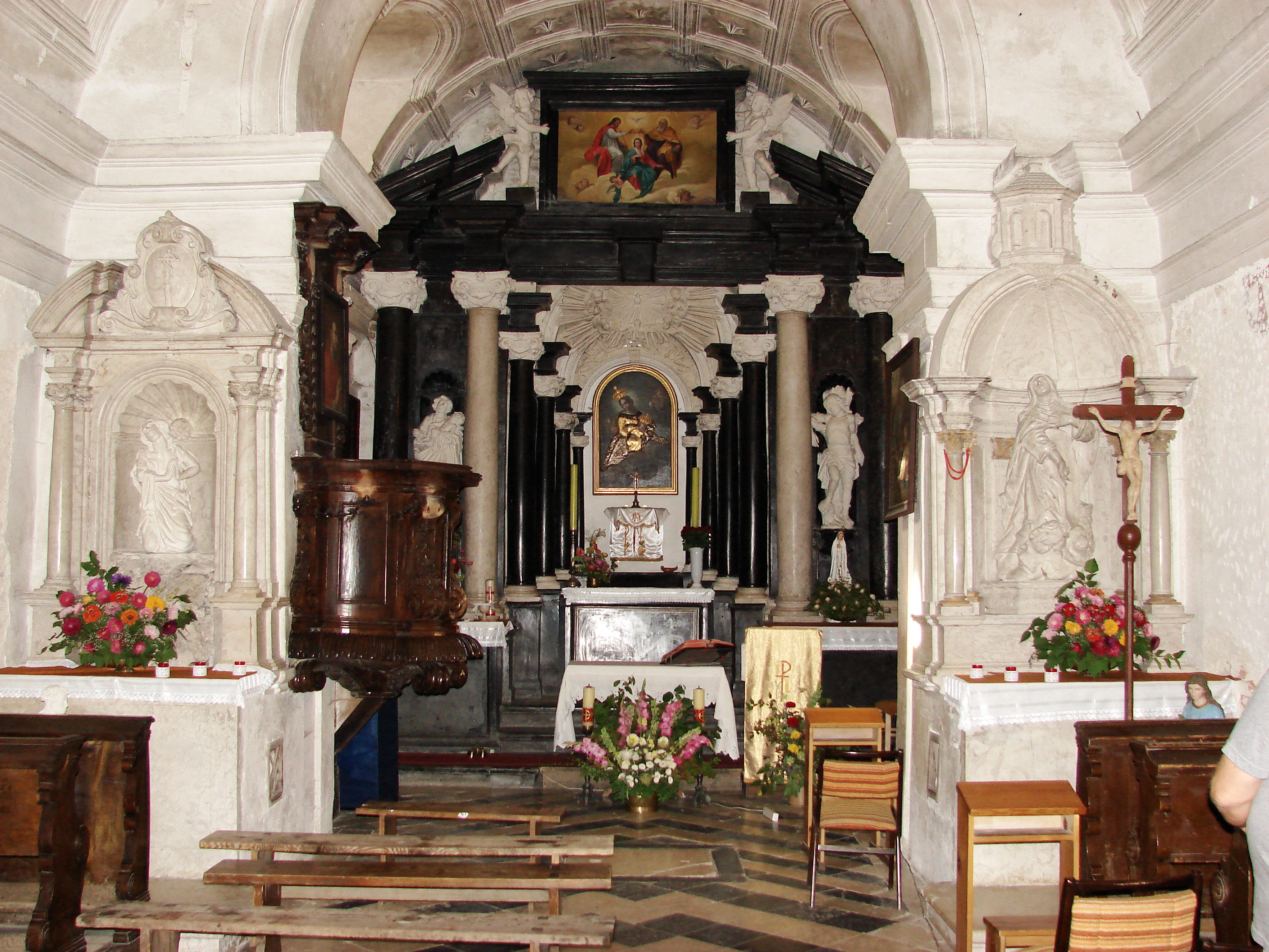 Church in Grodzisko near Skała - inside